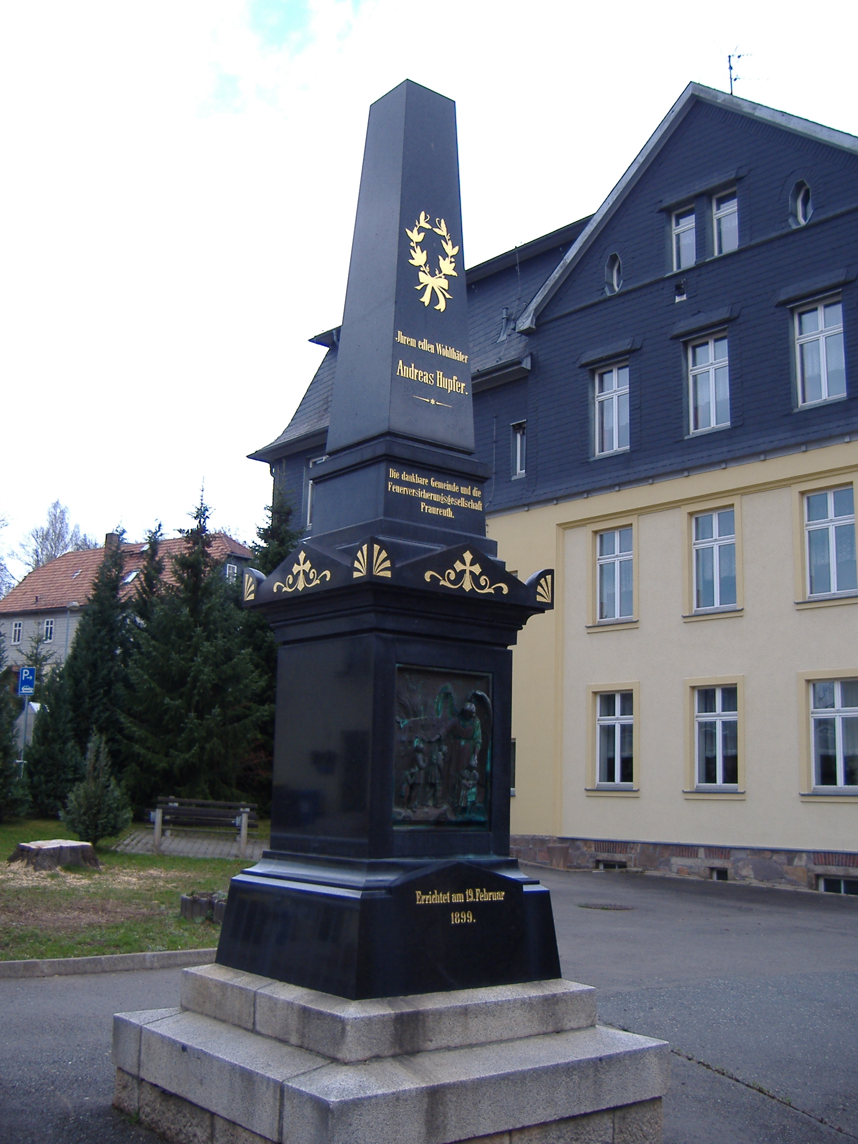 The monument of Andreas Hupfer in Fraureuth (Saxony).